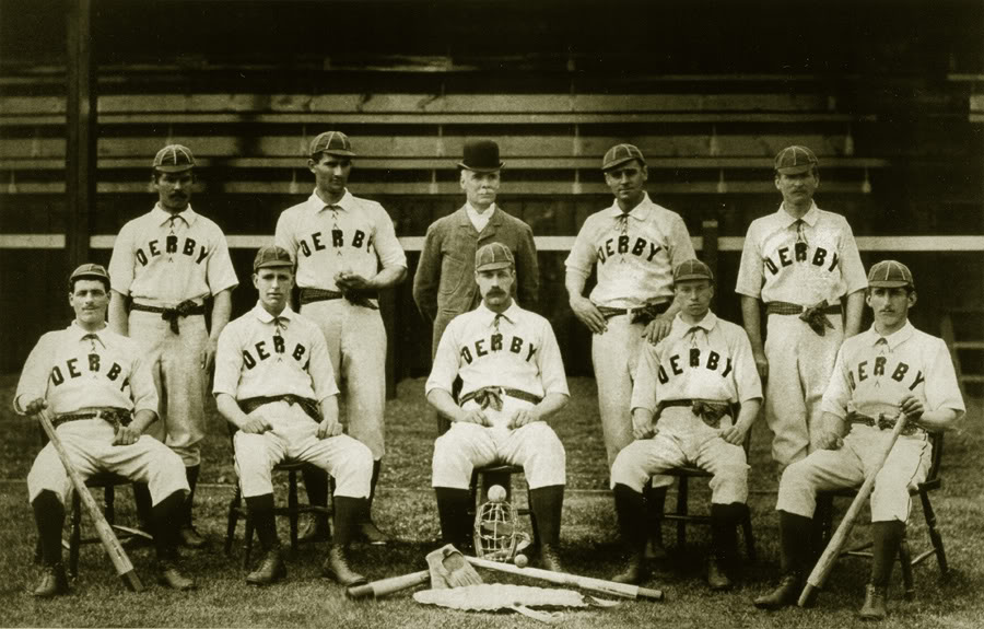 Derby County Baseball Club 1890 see Baseball without borders: the international pastime, George Gmelch, p.268